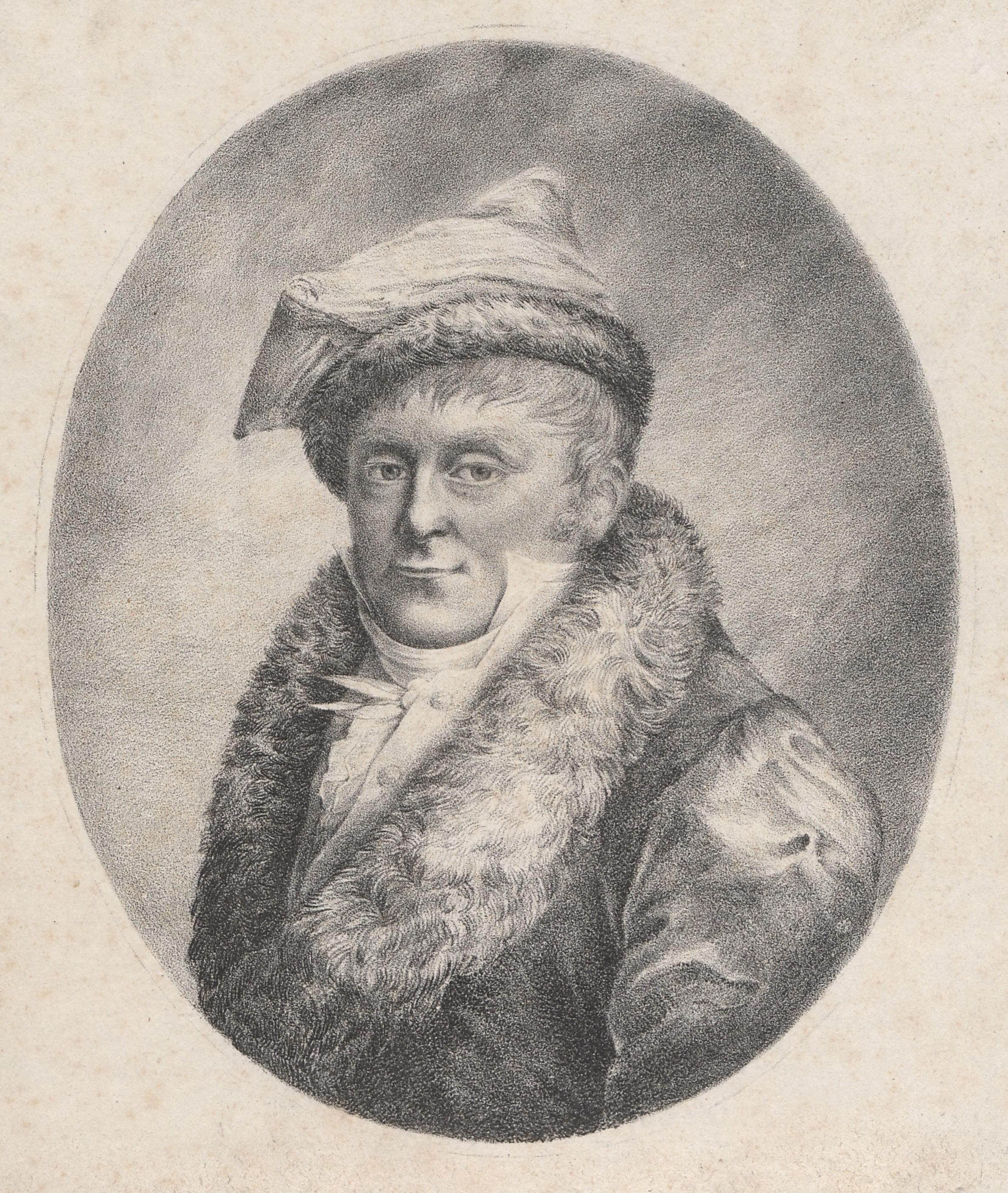 count Alexsander Francishak Chodkievich (1776-1838). Engraving, 1822 AD